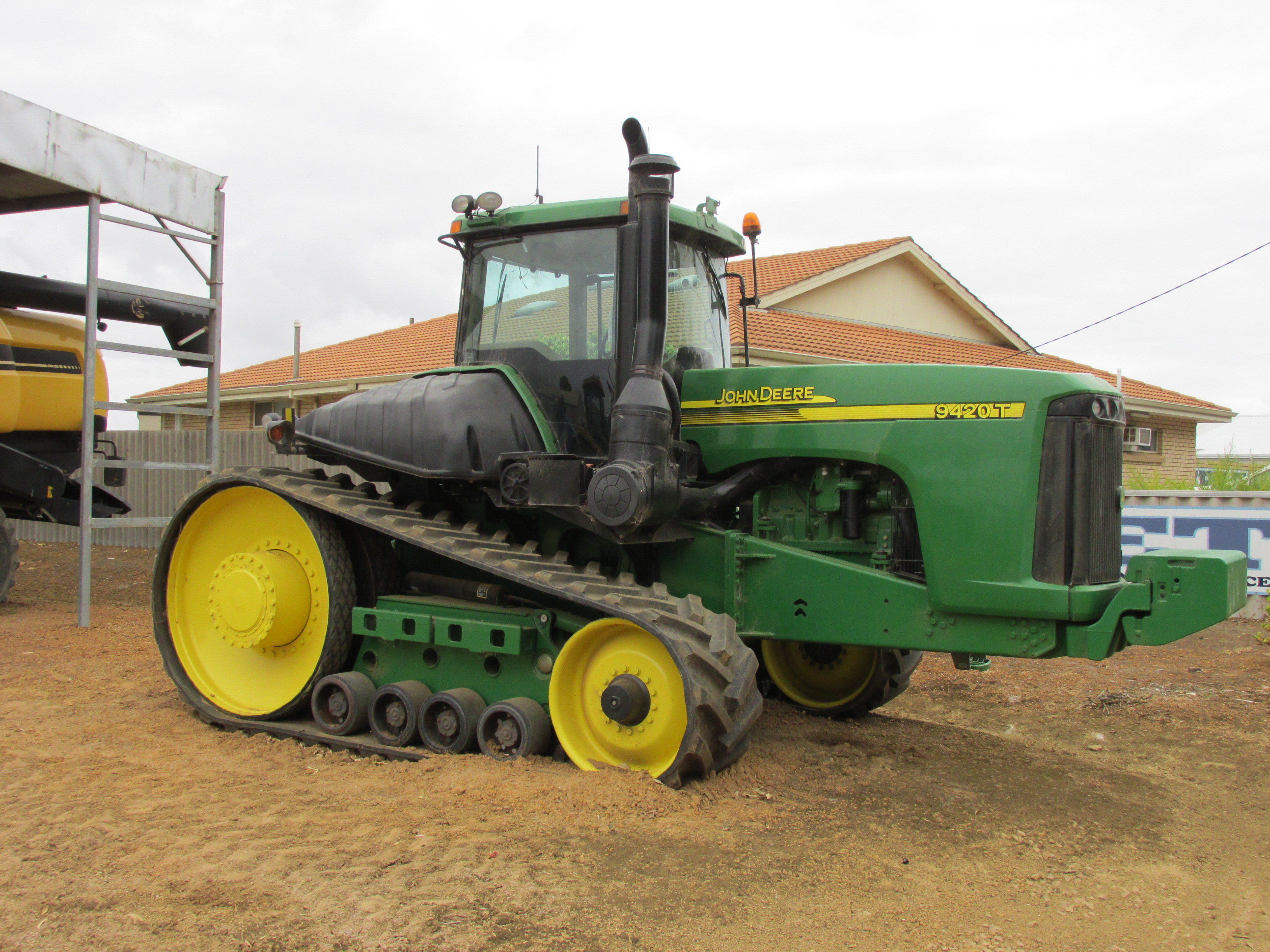 John Deere 9420T tractor in Chadwick, Esperance, Western Australia.